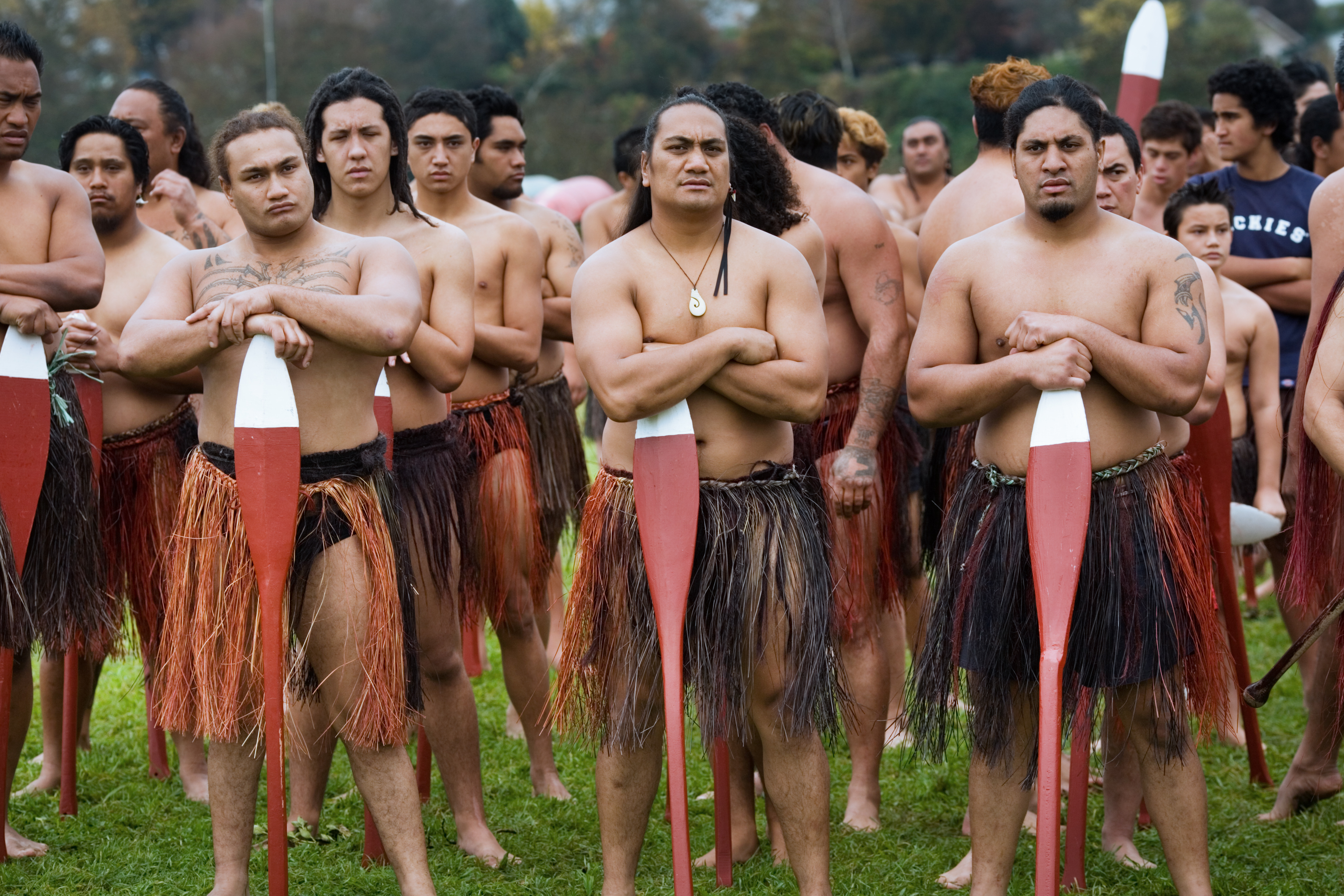 New Zealand Maori rowing ceremonial coreography